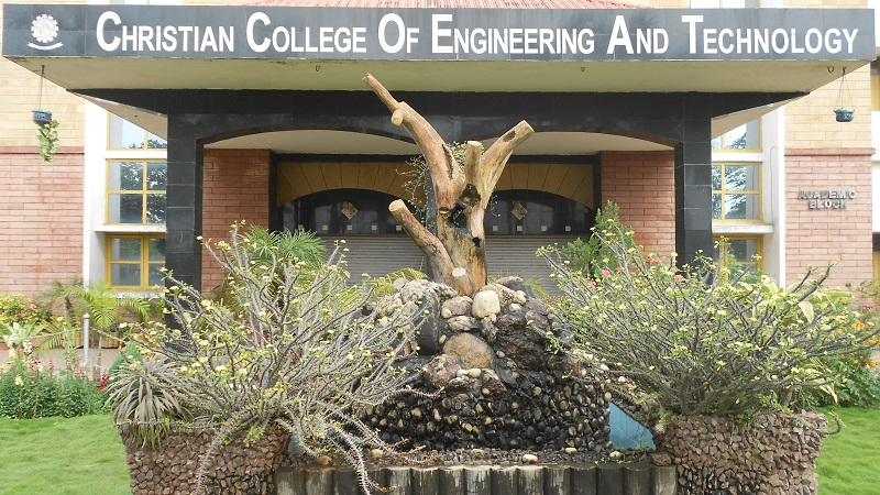 Photo taken by Jino Thomas at CCET Bhilai.